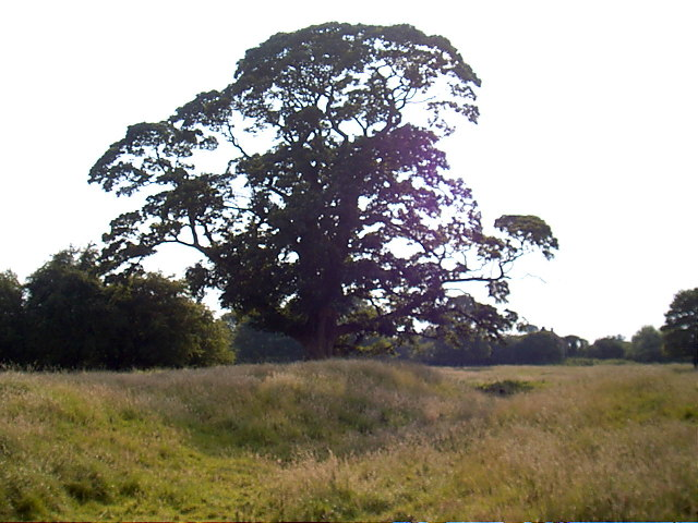 Site of Meaux Abbey, Meaux, East Riding of Yorkshire, England.Earthworks associated with Meaux Abbey.